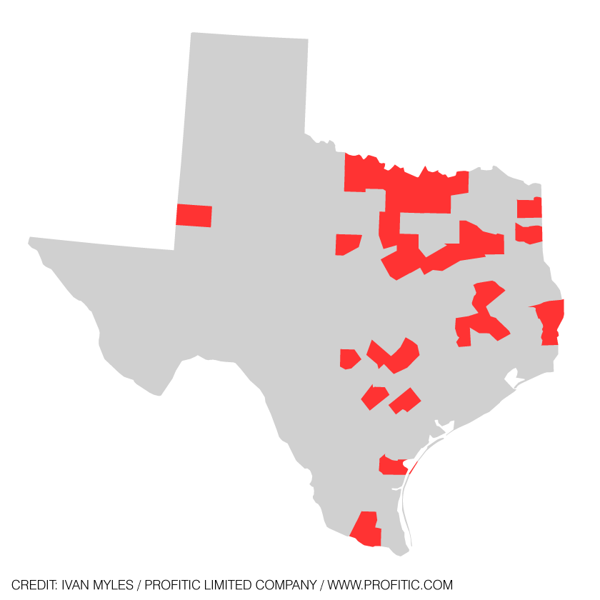 Texas Governor Greg Abbott issued an Emergency Disaster Proclamation on May 11, 2015, certifying that the severe weather, tornado, and flooding event that began on May 4, 2015, caused a disaster in Bosque, Clay, Denton, Eastland, Gaines, Montague, and Van Zandt counties. On May 15, 2015 the proclamation was amended to include Cooke, Grimes, Hood, Navarro, Smith, and Wise counties. Severe weather, tornadoes, and flooding continue in these and other counties in Texas. On May 25, 2015, the following 24 counties were added to the proclamation: Archer, Bastrop, Caldwell, Cass, Collin, Dewitt, Fannin, Grayson, Harrison, Hays, Henderson, Hidalgo, Hill, Houston, Jasper, Johnson, Kendall, Newton, Nueces, Parker, San Jancinto, Walker, Wichita, and Wilson. (Governor of Texas)